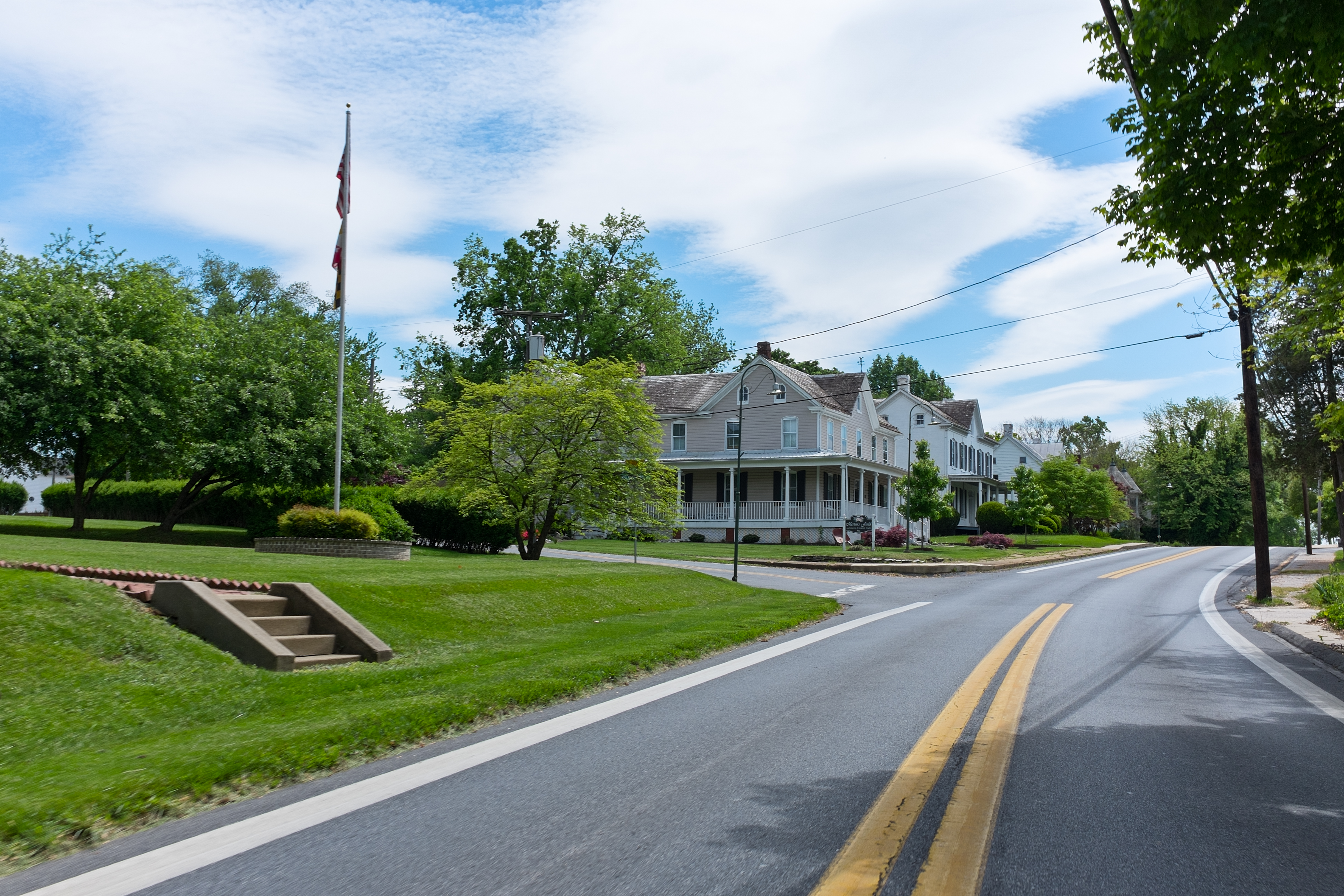 Buckeystown, Maryland, another view